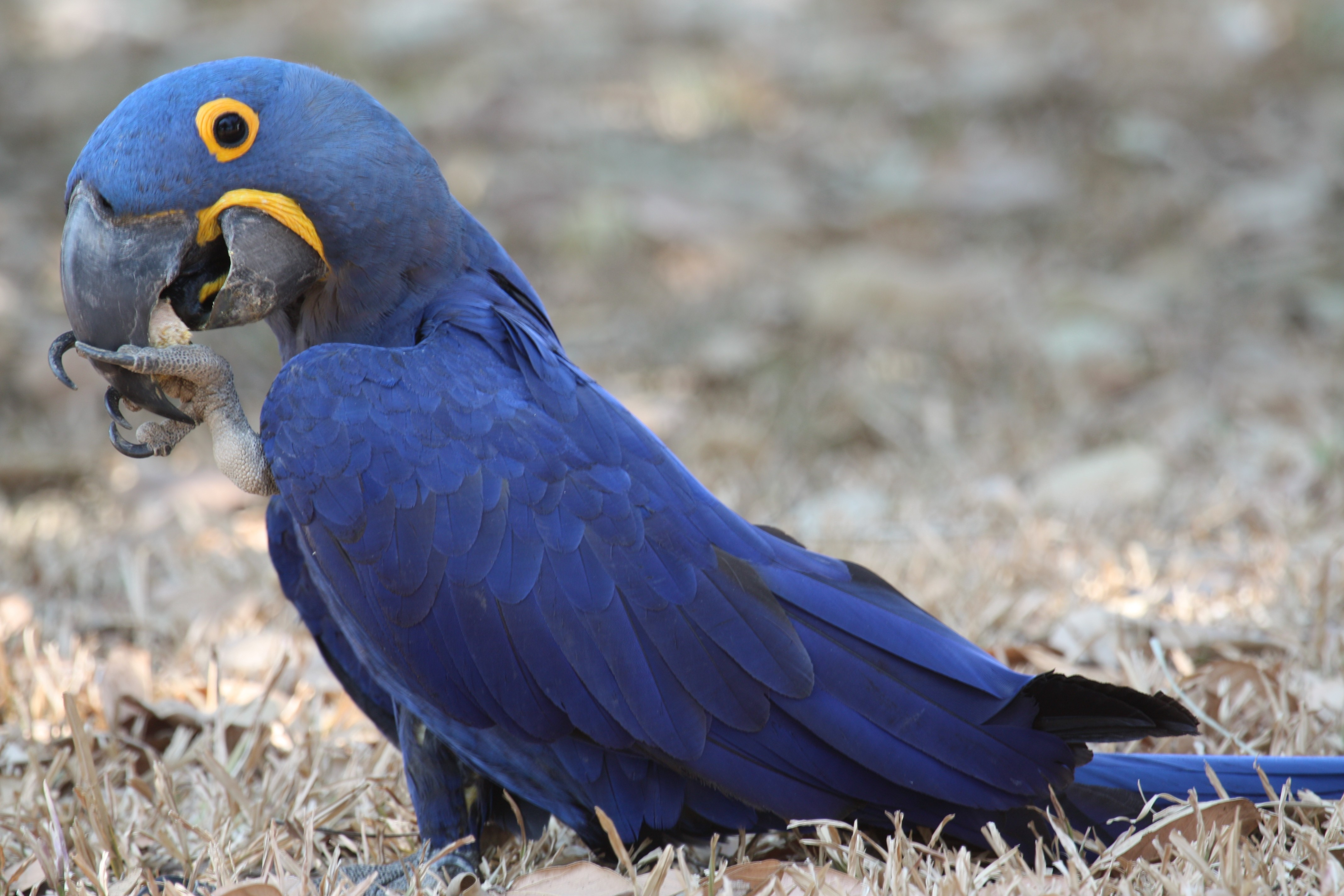 A Hyacinth Macaw in Mato Grosso do Sul, Brazil.